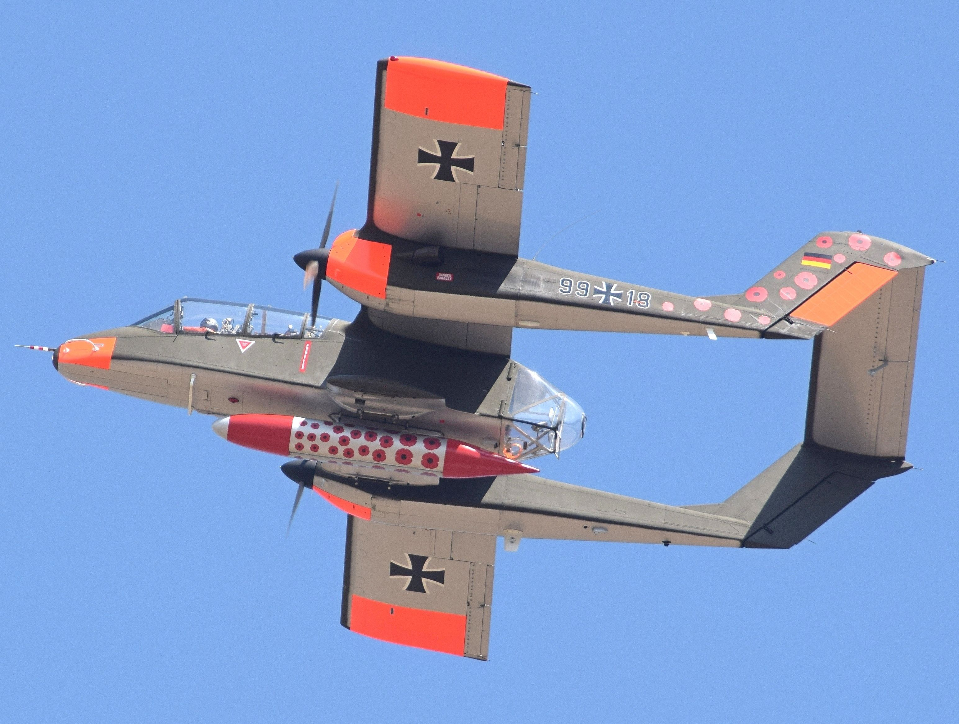 North American Rockwell OV-10B Bronco of the Bronco Demo Team arrives at the 2018 Royal International Air Tattoo, RAF Fairford, England. This is an ex-Luftwaffe aircraft, originally used as an aerial gunnery target tug. The Luftwaffe code was 99+18, now it is in private ownership with UK registration G-ONAA. The OV-10B was an OV-10A with no weapons, no sponsons, and a glass greenhouse dome replacing the rear door, which was used by the tow operator. It served with the Luftwaffe from 1970 until the early 1990s. The Bronco Demo Team is German but based in Belgium.